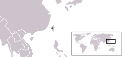 Location of the Kingdom of Quataong in Taiwan.